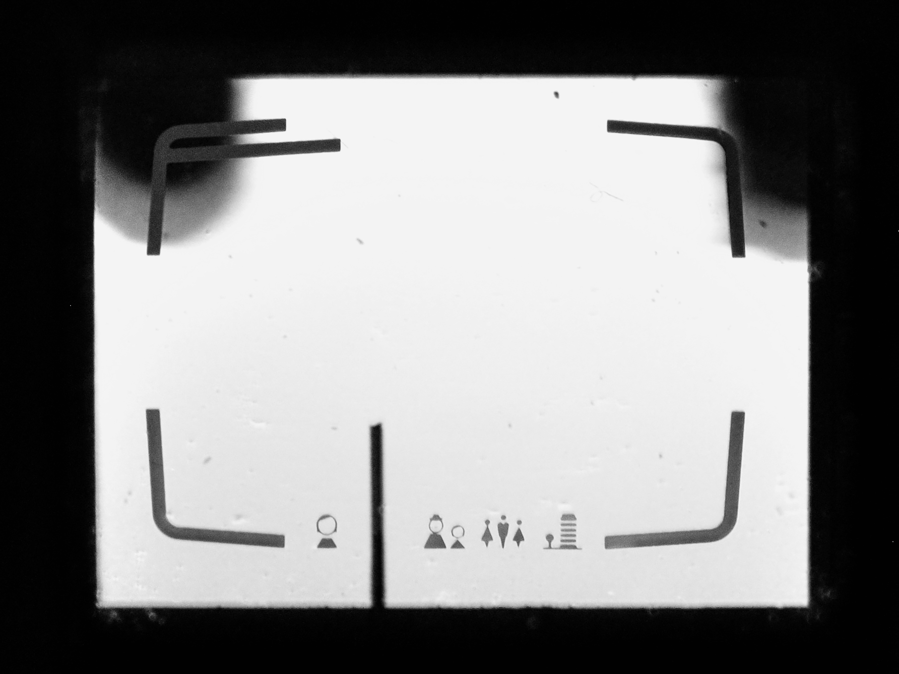 Viewfinder of a Lomo LC-A from 1987, with display of selected focussing. In the upper corners of the two red LEDs for further information, the left shows the battery voltage is adequate, the right indicates the opening of the shutter for longer than 1/30 second is to be expected. The second line in the upper left corner of the screen indicates the upper edge of the picture at short distance.